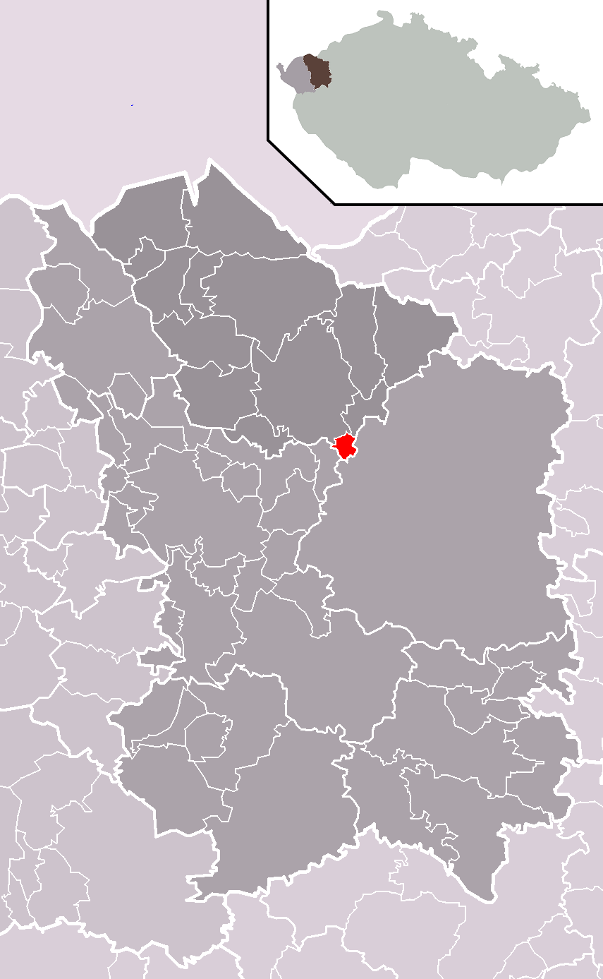 Location of Velichov municipality within Karlovy Vary District and administrative area of Ostrov as a Municipality with Extended Competence.